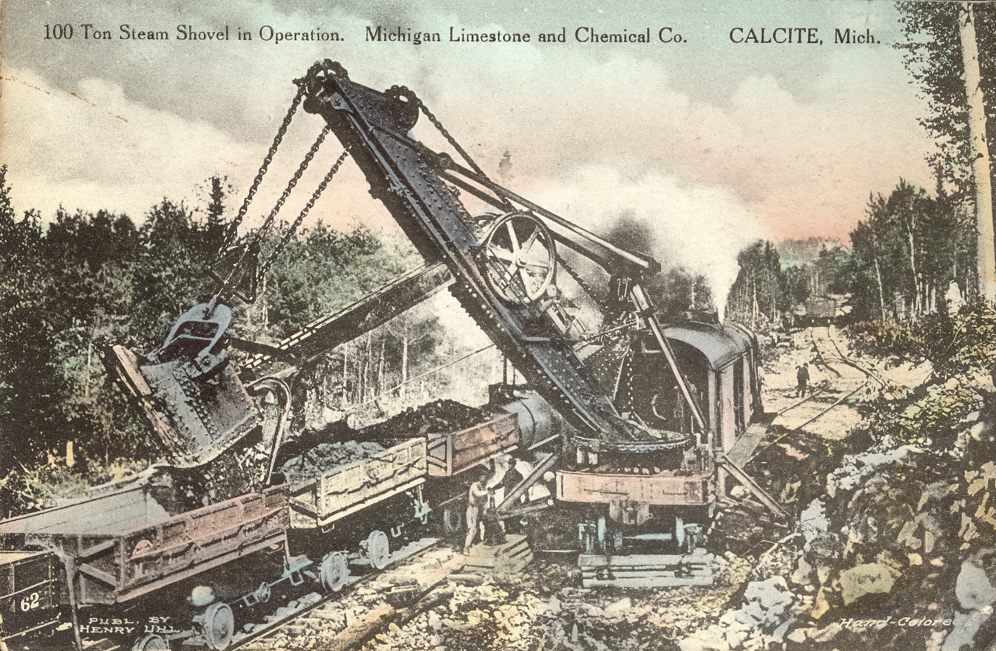 100 ton steam shovel, circa 1919